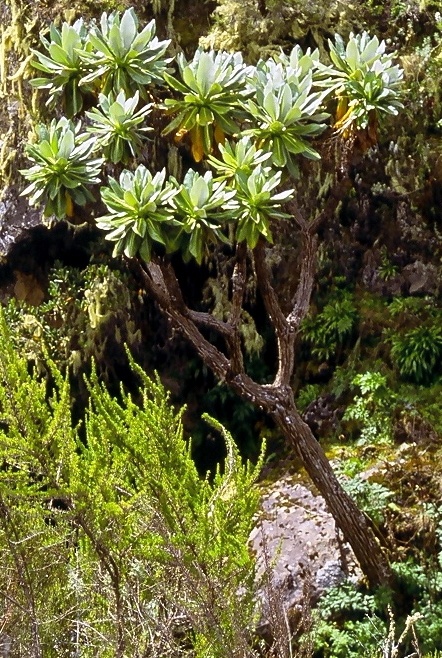 Giant tree groundsel, Dendrosenecio battiscombei (Syn. Senecio battiscombei), is found in in the lower region of the Afro-Alpine zone on Mount Kenya. It needs a wet climate. It is less common than the other Senecio species on Mount Kenya.